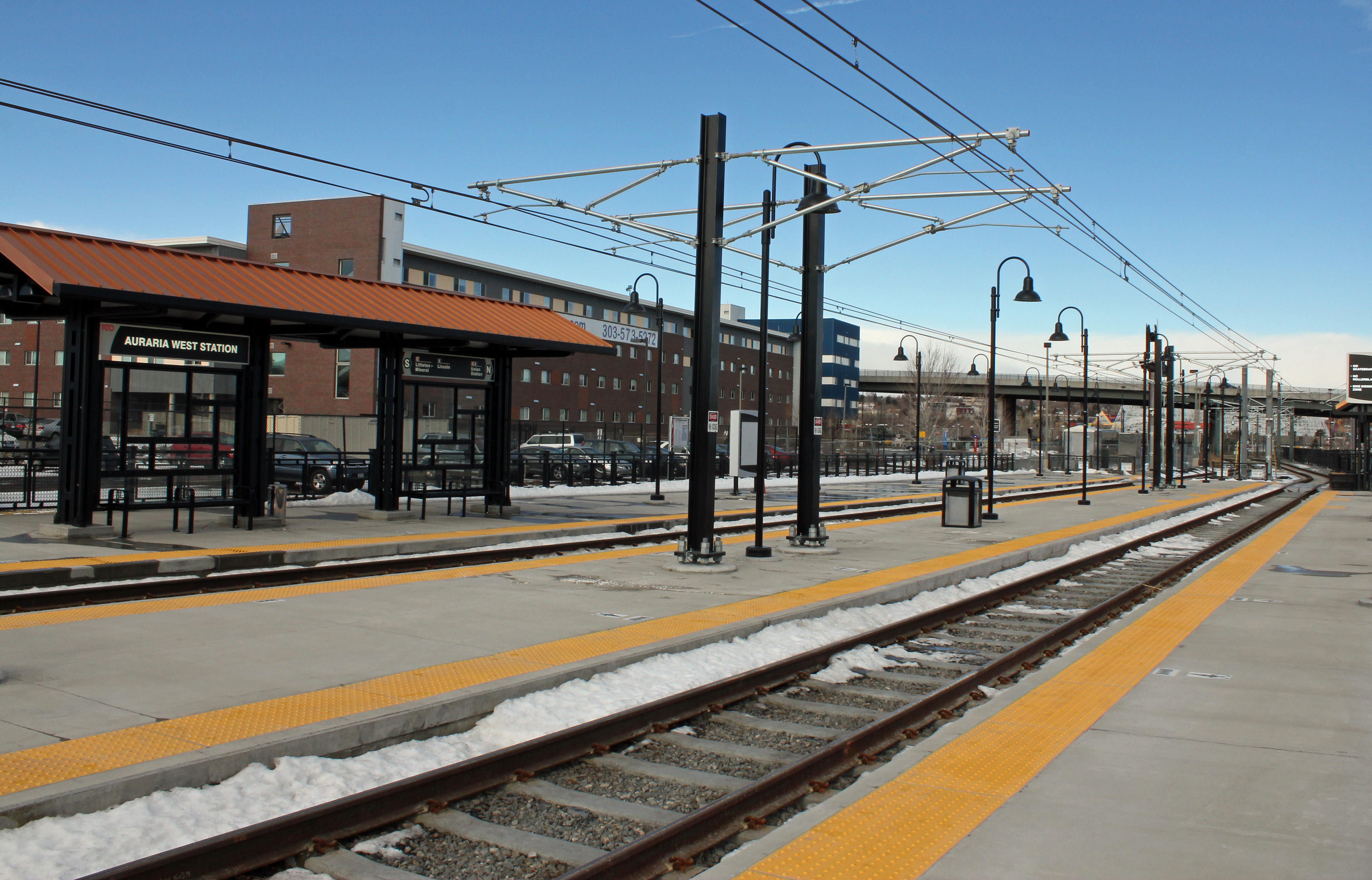 The Auraria West Campus Light Rail Station in Denver, Colorado. This station was built and opened in 2011, replacing a station that was formerly located nearby.